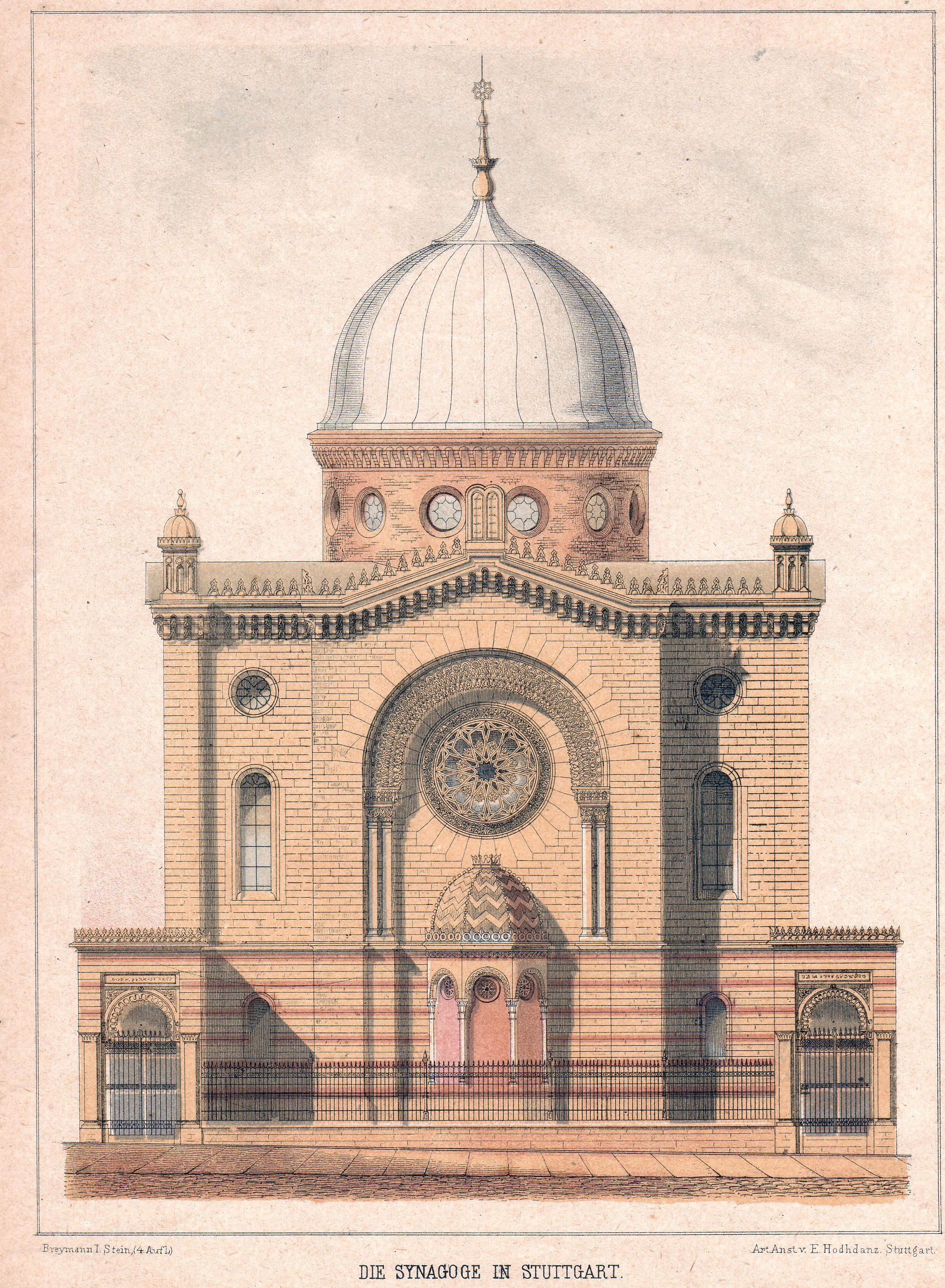 s